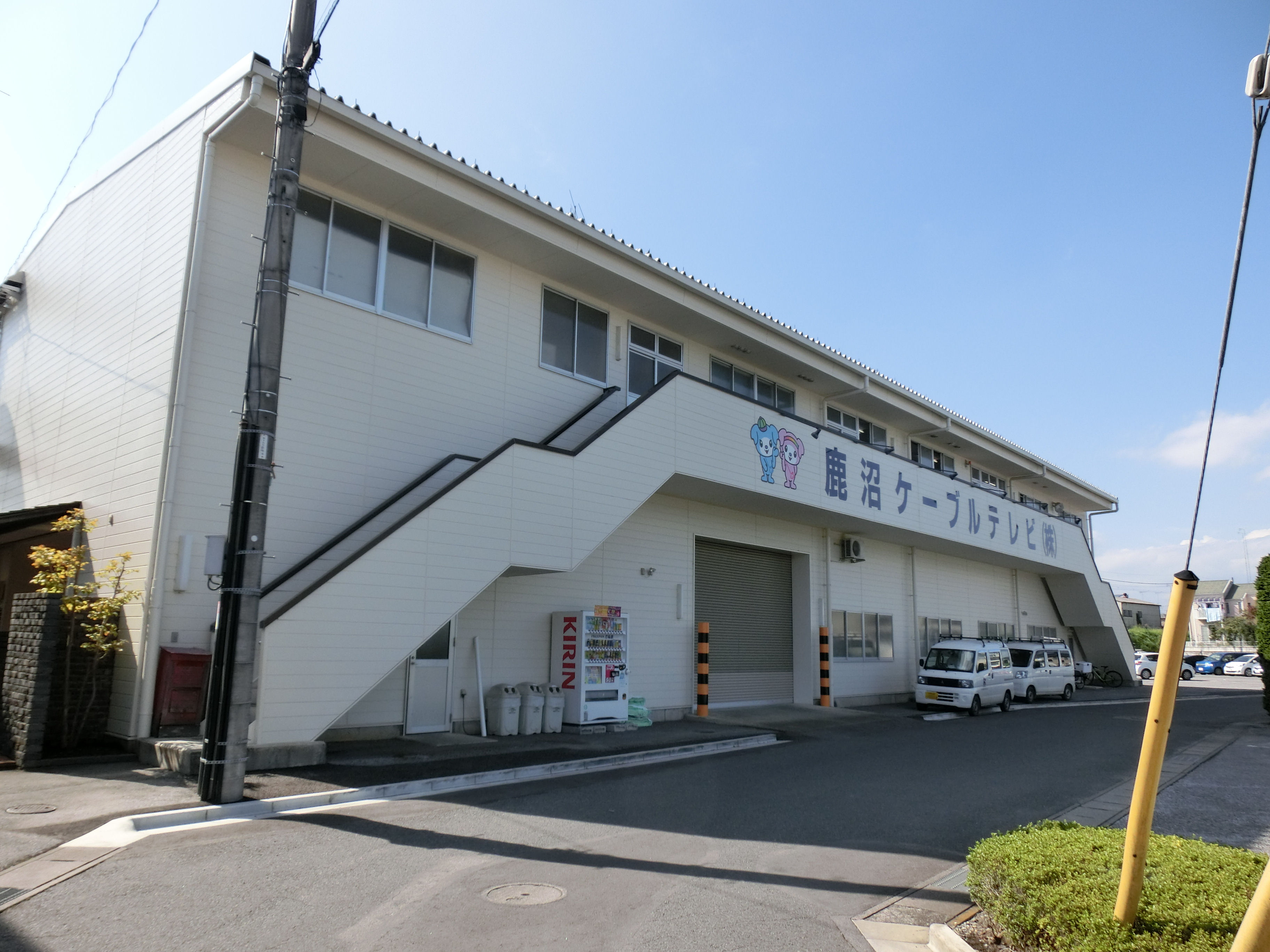 Kanuma Cable TV Head Office